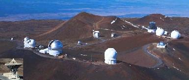 The array of telescopes atop Mauna Kea (Hawaii)